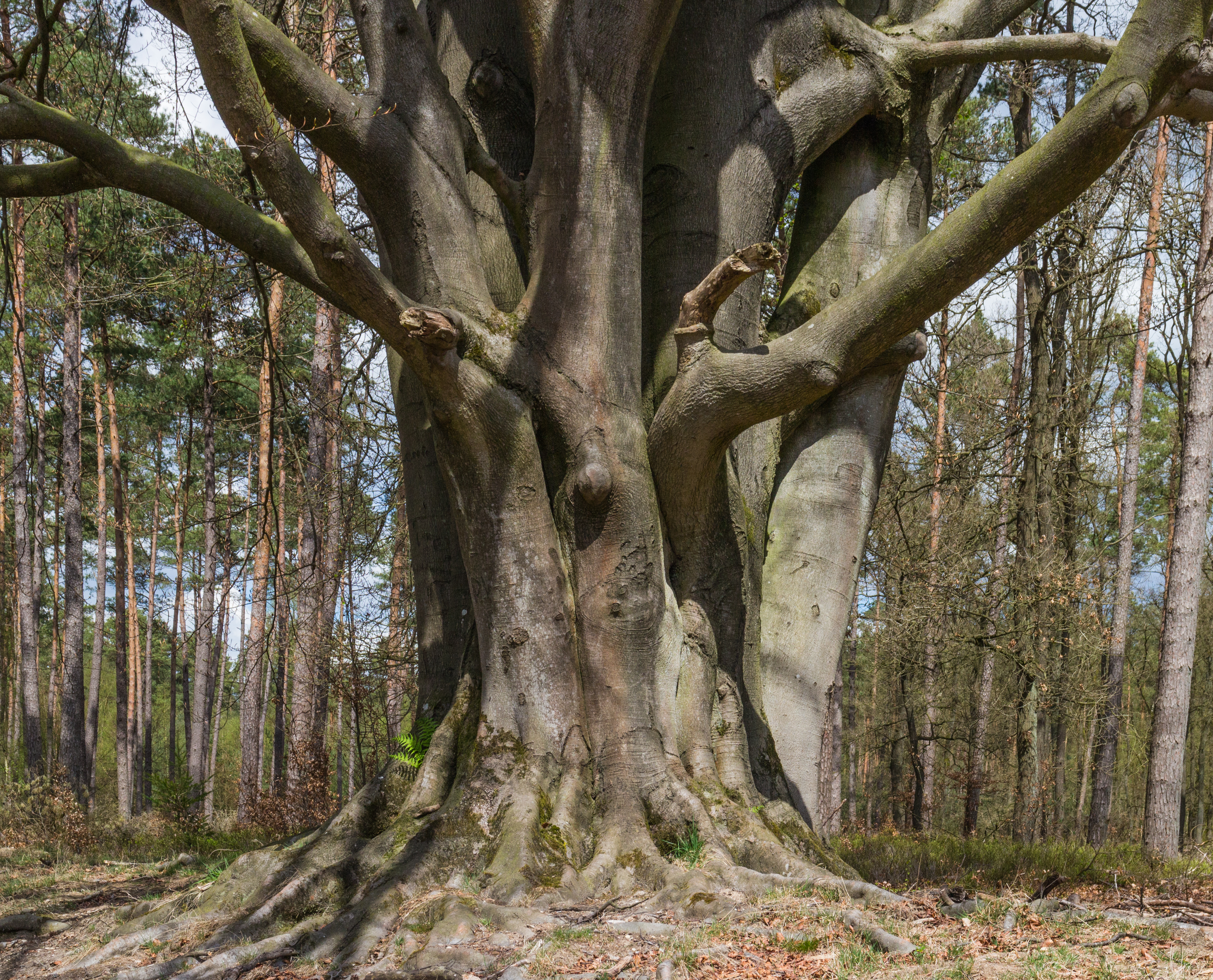 Kroezeboom (border tree). European beech (Fagus sylvatica). Location, Kroondomein (Netherlands).